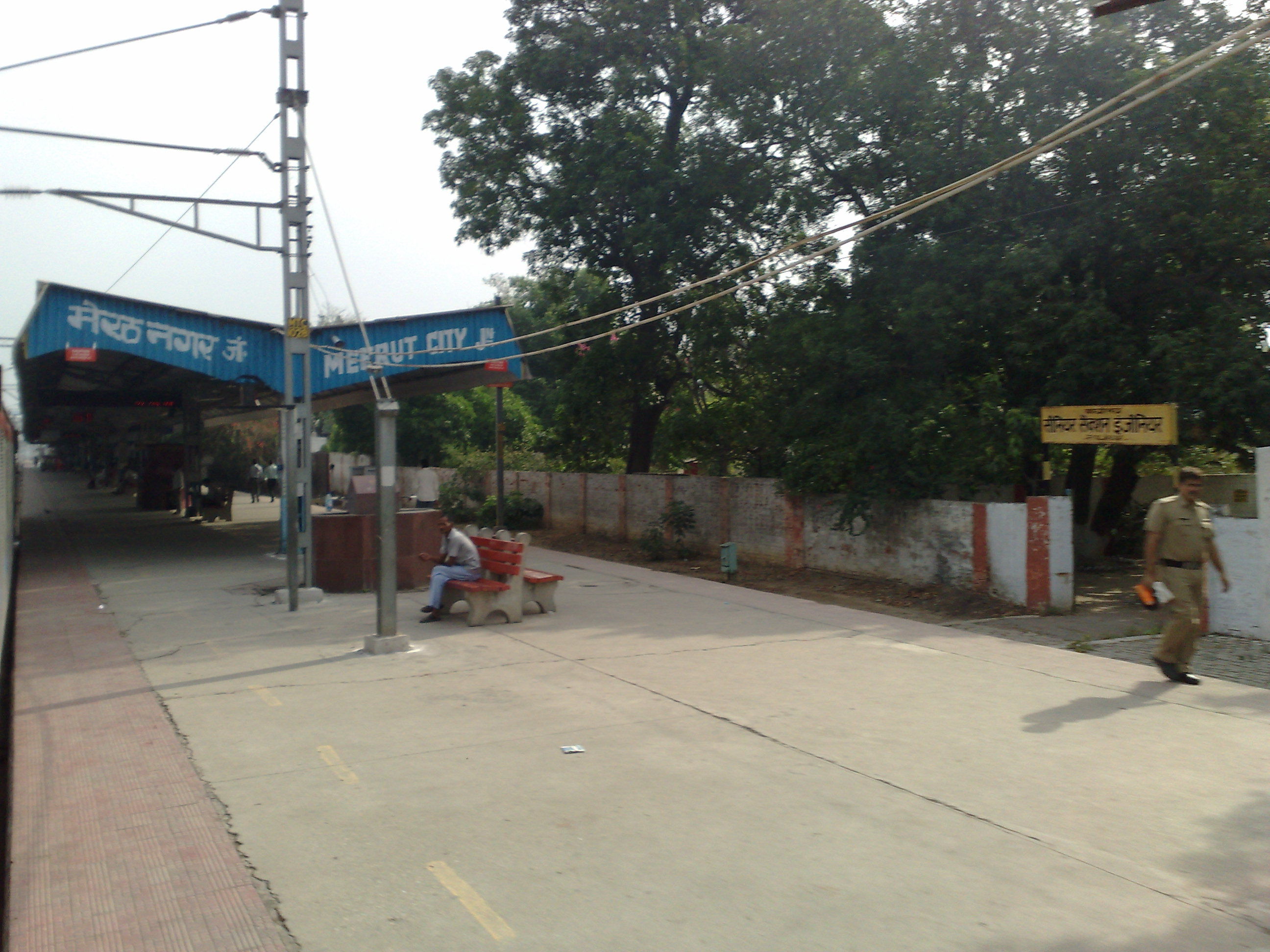 Meerut City Junction Gate 1